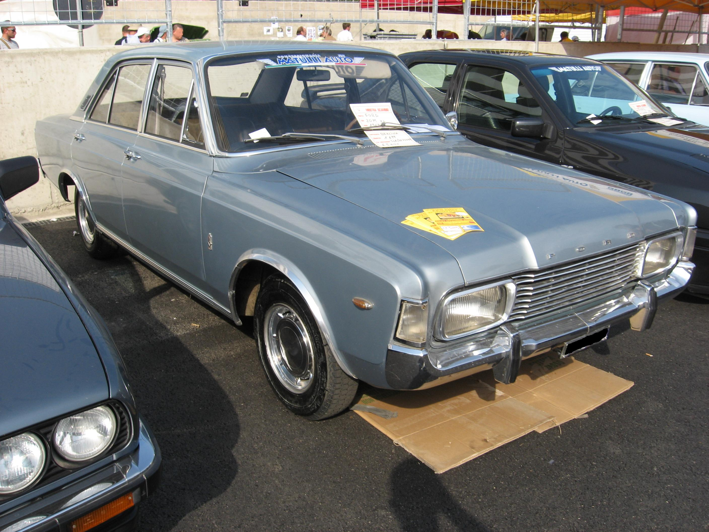 Subject: Ford 20M XL (1969) Author: Luc106 Date: September 23rd, 2007 Place/Country: Imola Circuit (BO), Italy I release all rights in the public domain.